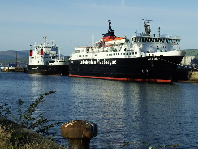 Isle of Mull at Greenock Caledonian McBrayne ferries MV Isle of Mull and MV Coruisk berthed at James Watt Dock in Greenock.